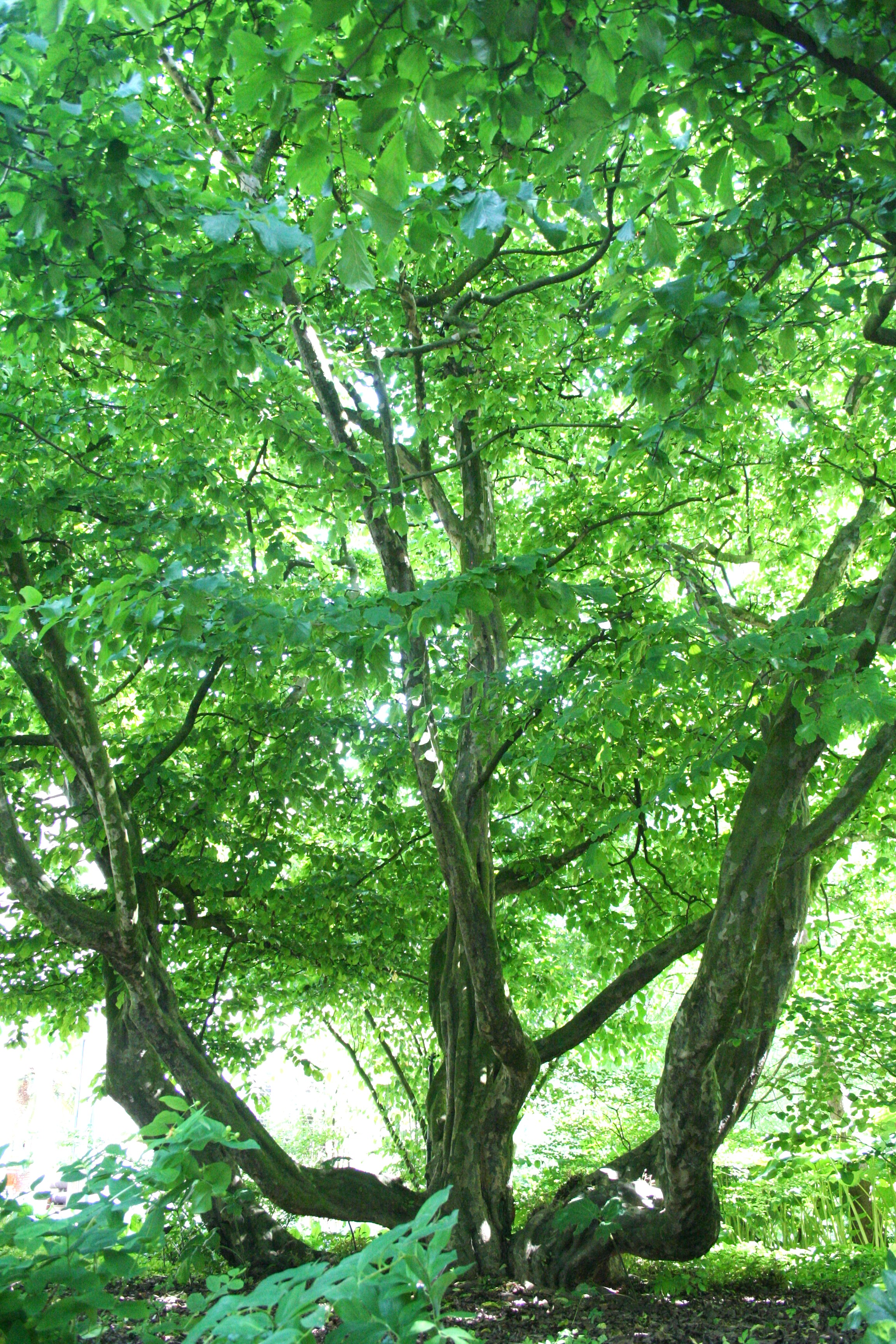 Persian Ironwood Tree (aka. "Parrotia Persica" and "Perzische Parrotia") at the Hortus Botanicus Amsterdam - Photo by Pejman Akbarzadeh (Persian Dutch Network)